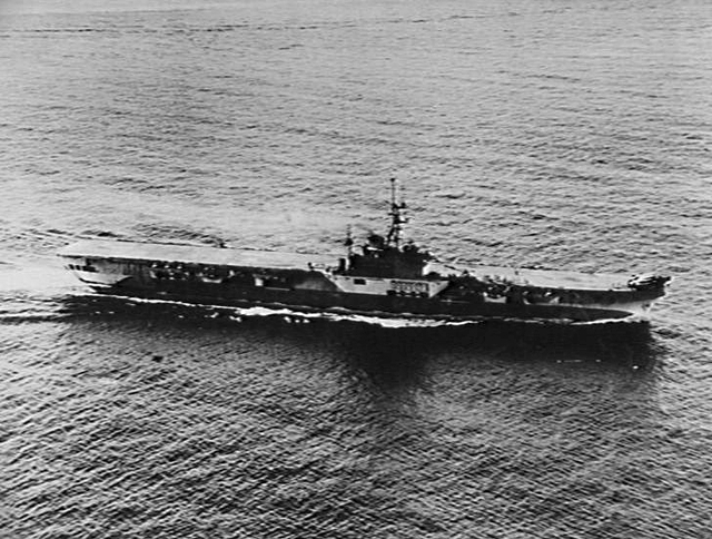 Aerial starboard side view of the Royal Navy light fleet carrier HMS Colossus (R15) taken off Wusong, Shanghai, China, circa September 1945. Two Fairey Barracuda torpedo bombers from 827 Naval Air Squadron are parked at the forward end of the flight deck. The aerial on the stump mast is a Type 281b air search radar. Note the odd camouflage pattern which appears to be a modification of the admiralty standard scheme.